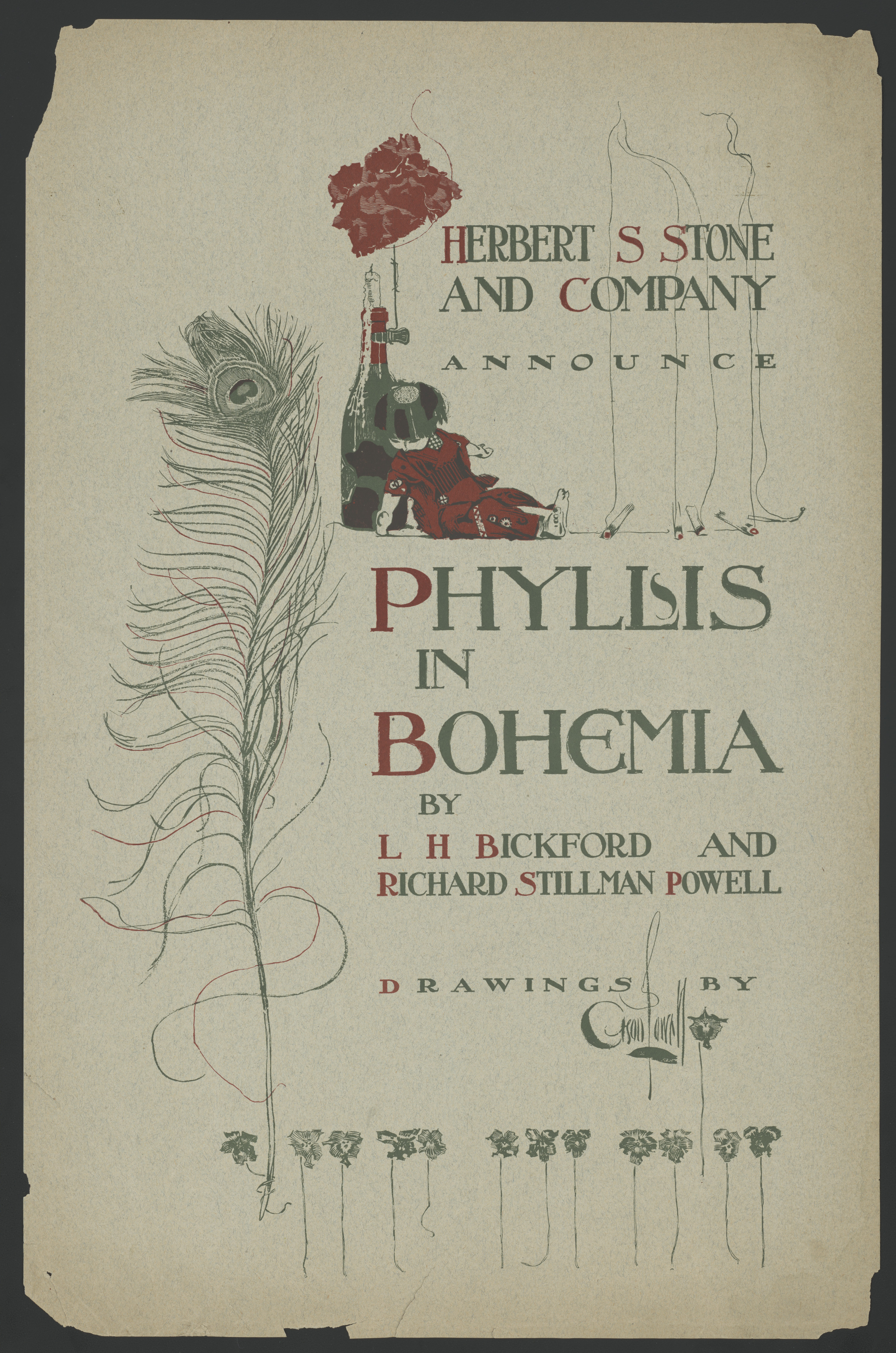 Title: Phyllis in Bohemia Abstract/medium: 1 print : color lithograph ; sheet 56 x 37 cm (poster format)